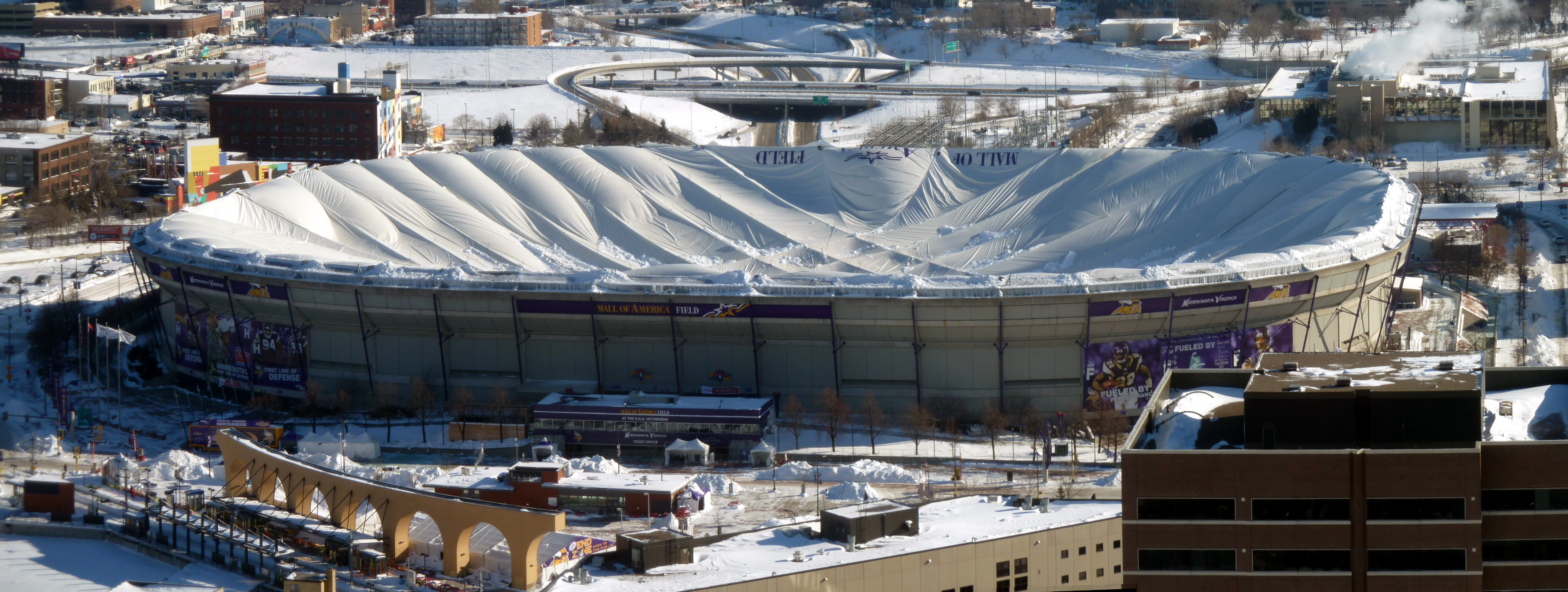 The Hubert H. Humphrey Metrodome (Minneapolis, Minnesota) after it's air-supported roof, made of Teflon coated fiberglass fabric, tore in two spots and deflated at approximately 05:00am on December 13, 2010 due to a heavy snow burden from the Twin Cities's worst snow storm in over a decade.